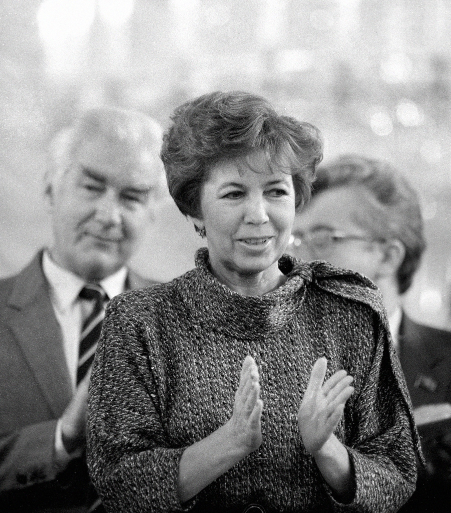 “Raisa Gorbachev”. Soviet Fund of Culture Board Member Raisa Gorbachev (center) at the All-Union Foundation Conference of the Soviet Children's Fund named after Lenin.